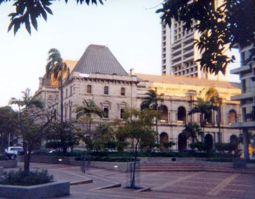 Queensland Parliament House ( this photograph was taken by Figaro )